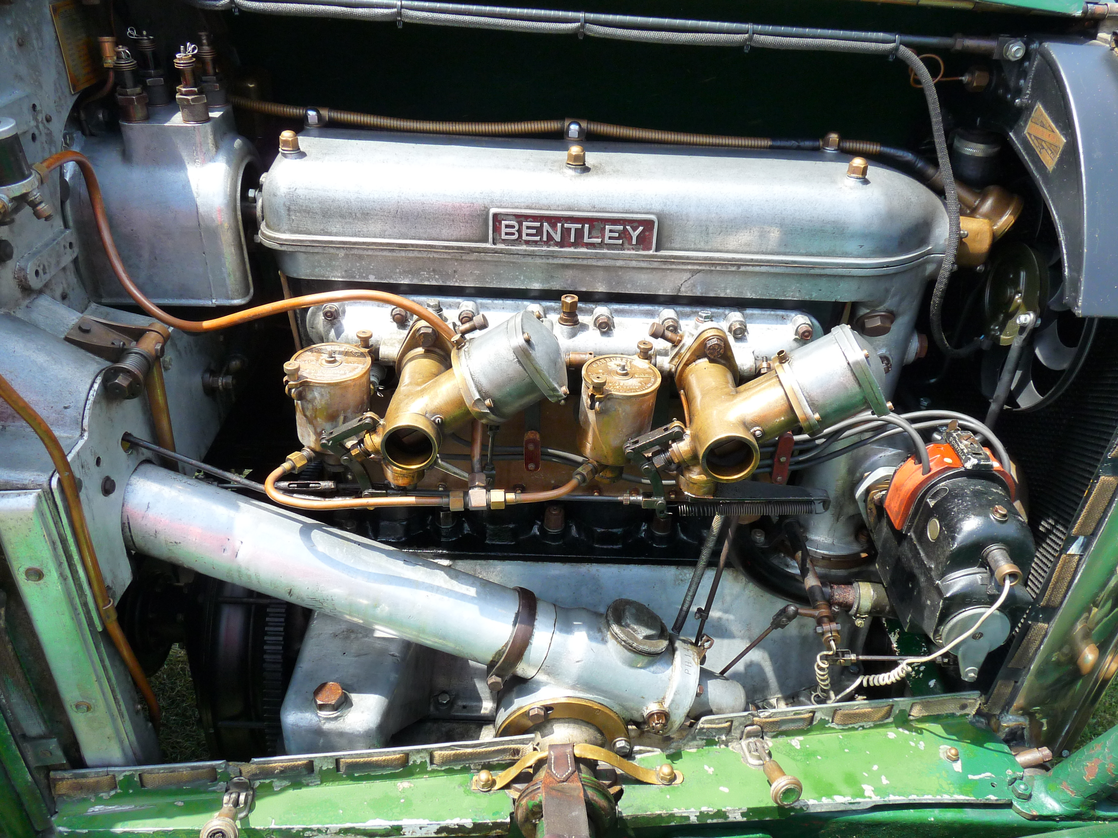 Engine Bentley 3-litre, delivered March 1926, tourer body by Vanden Plas Chassis PH1461 Engine PH1468 Registration KM2321